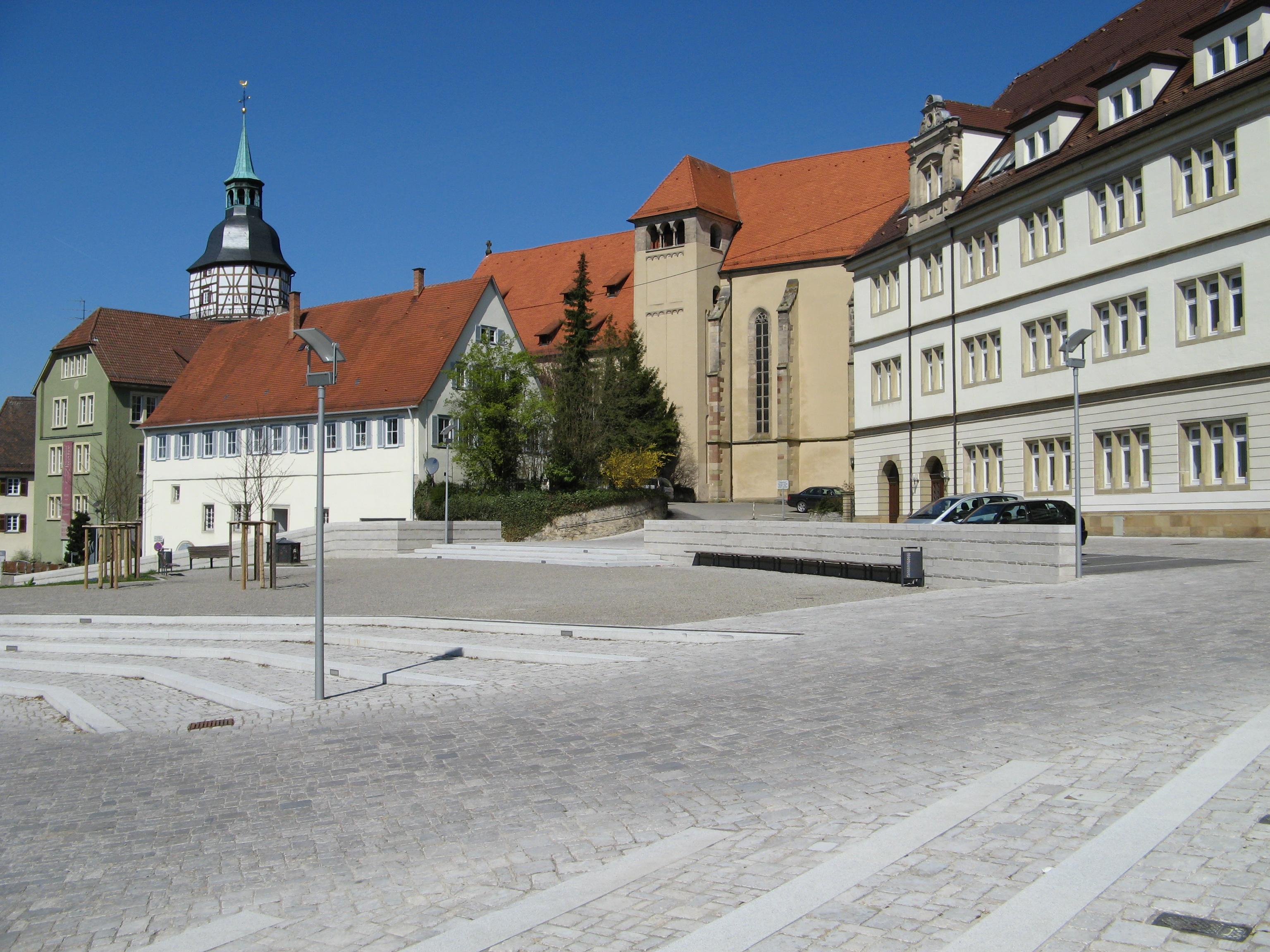 Stiftshof, Backnang, Germany